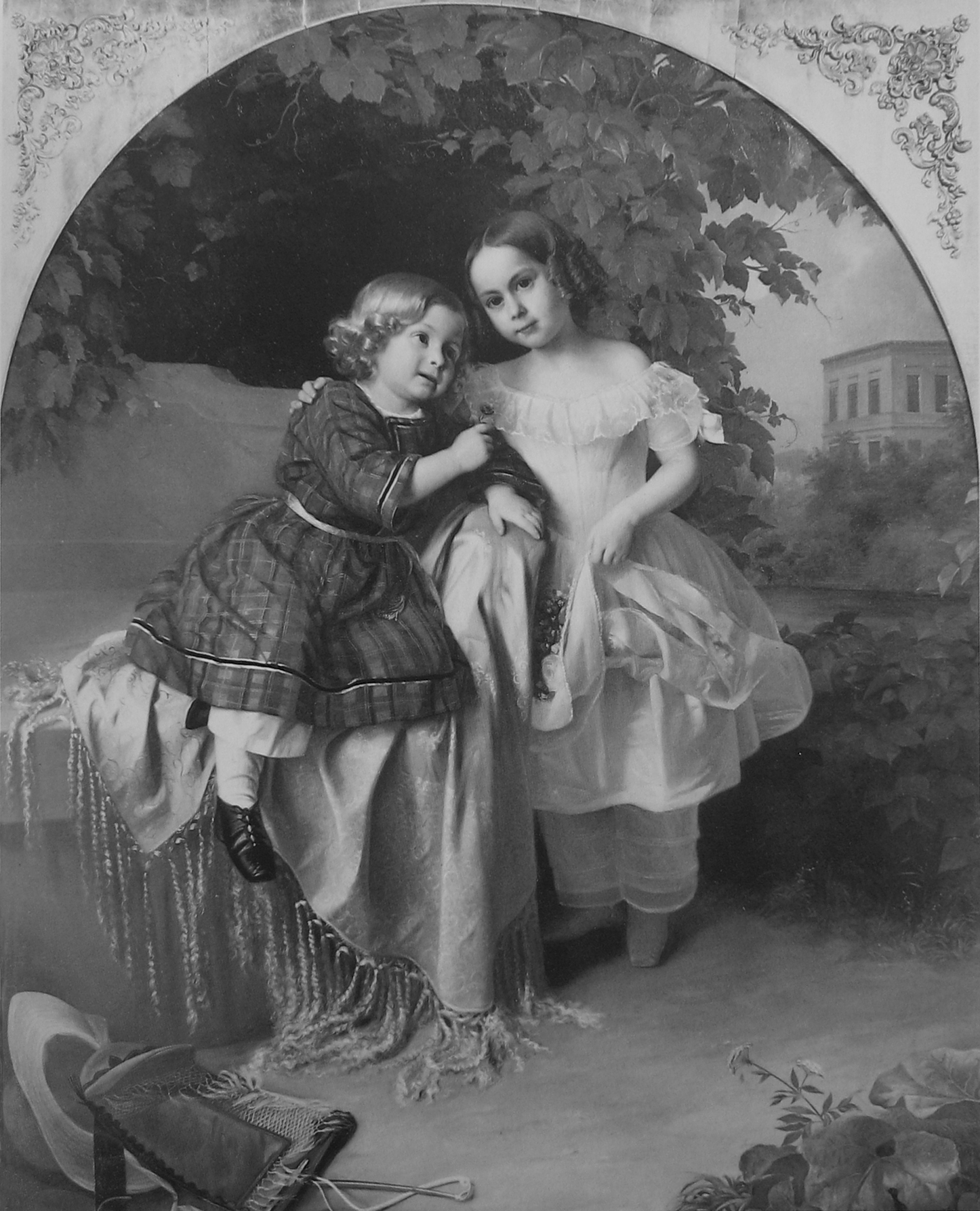 Portraiture of two children.